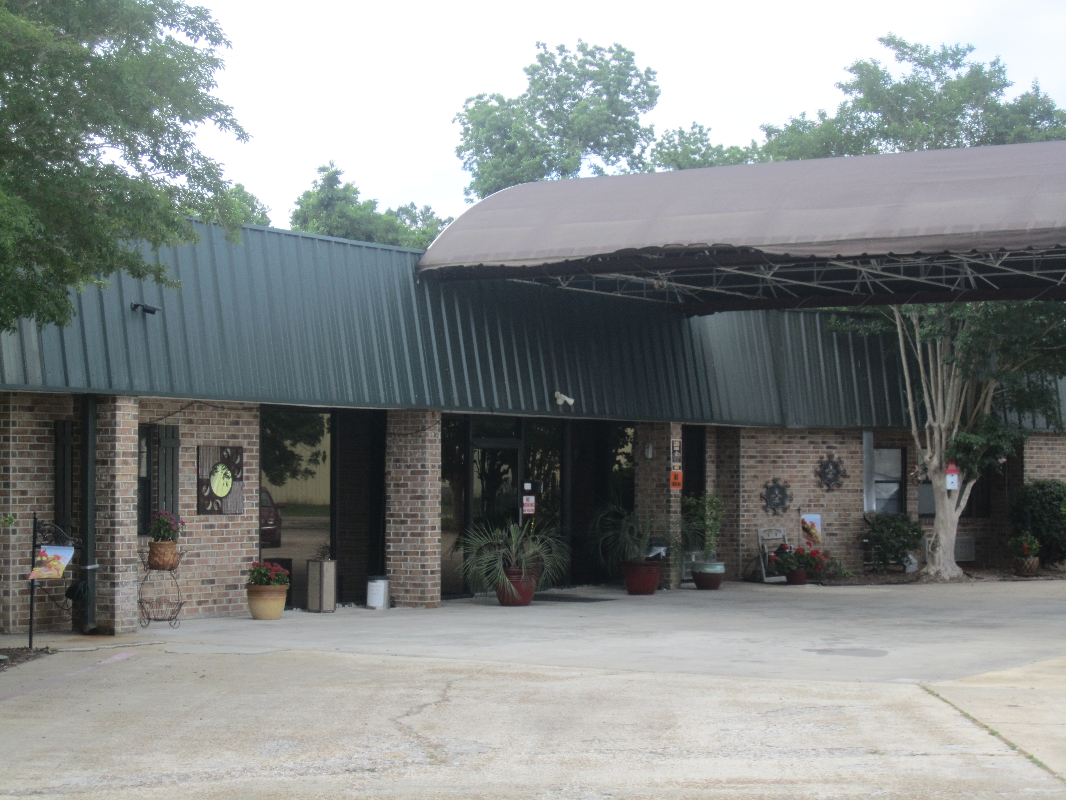 I took photo with Canon camera of the Reunions Home in Colfax, LA, which serves all of Grant Parish.